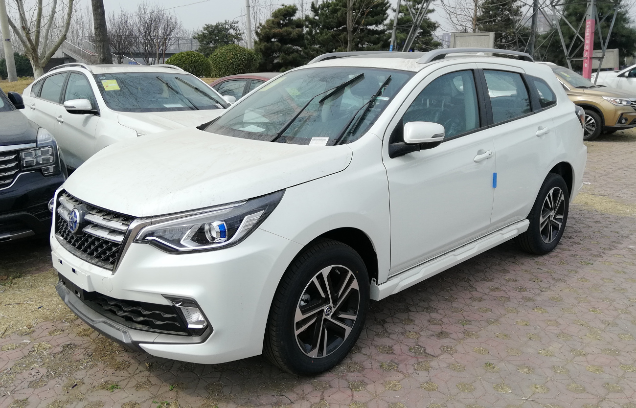 Venucia T70 facelift photographed in Beijing, China.